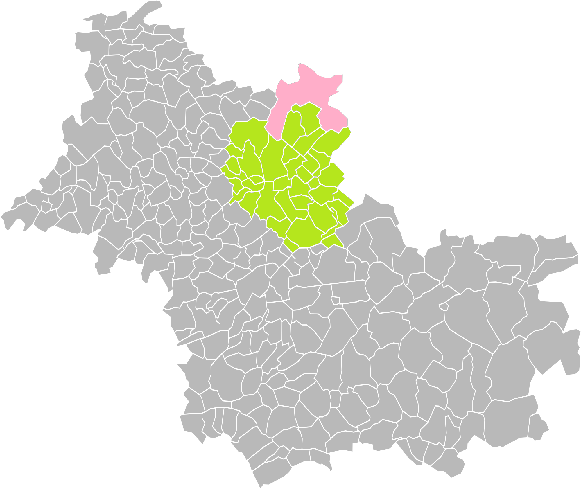 Location of the commune of Beauce-la-Romaine in the canton of La Beauce (Loir-et-Cher)